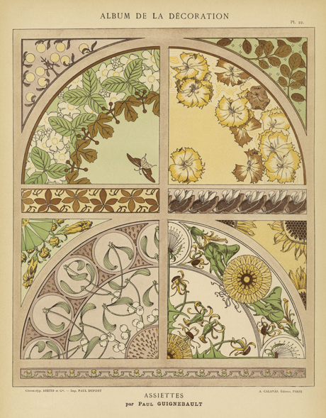 Plates [Assiettes] by Paul Guignebault, color lithographic, issue 22, from Album de la Décoration, Paris, Librairie des arts décoratifs. Dim. : 36 cm x 26.3 cm.